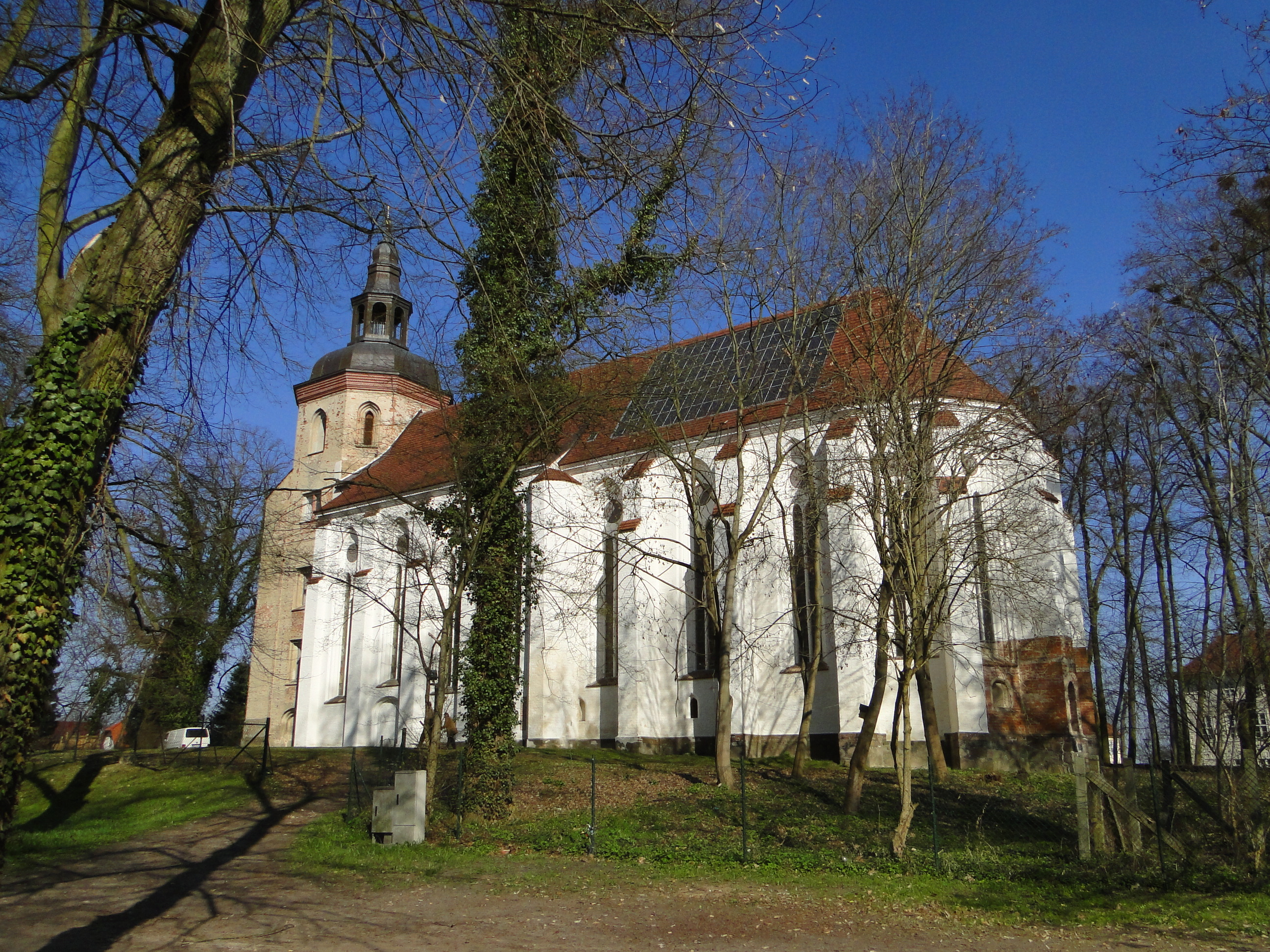 Church in Mirow, disctrict Mecklenburg-Strelitz, Mecklenburg-Vorpommern, Germany